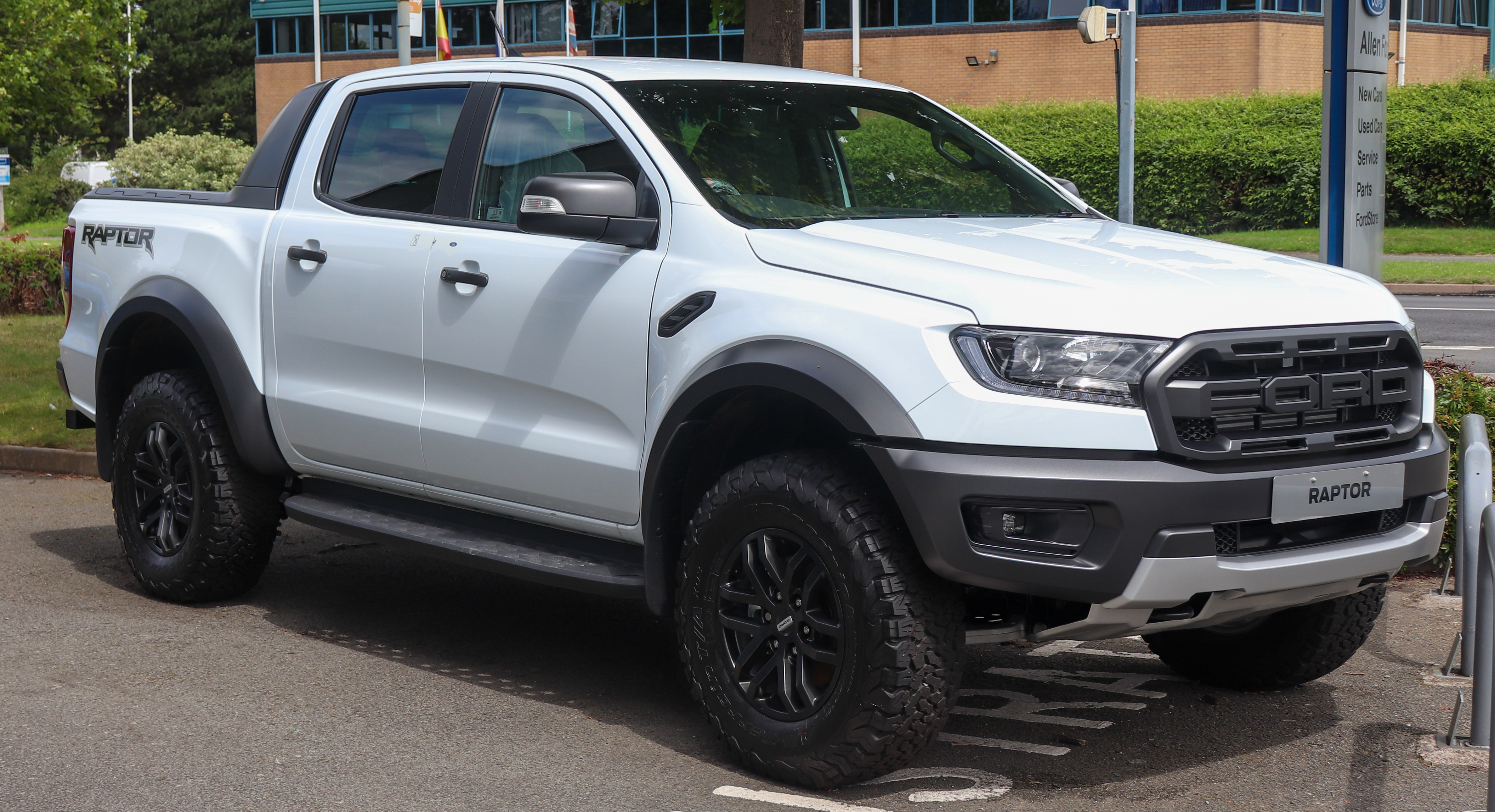 2020 Ford Ranger Raptor Front Taken in Leamington Spa